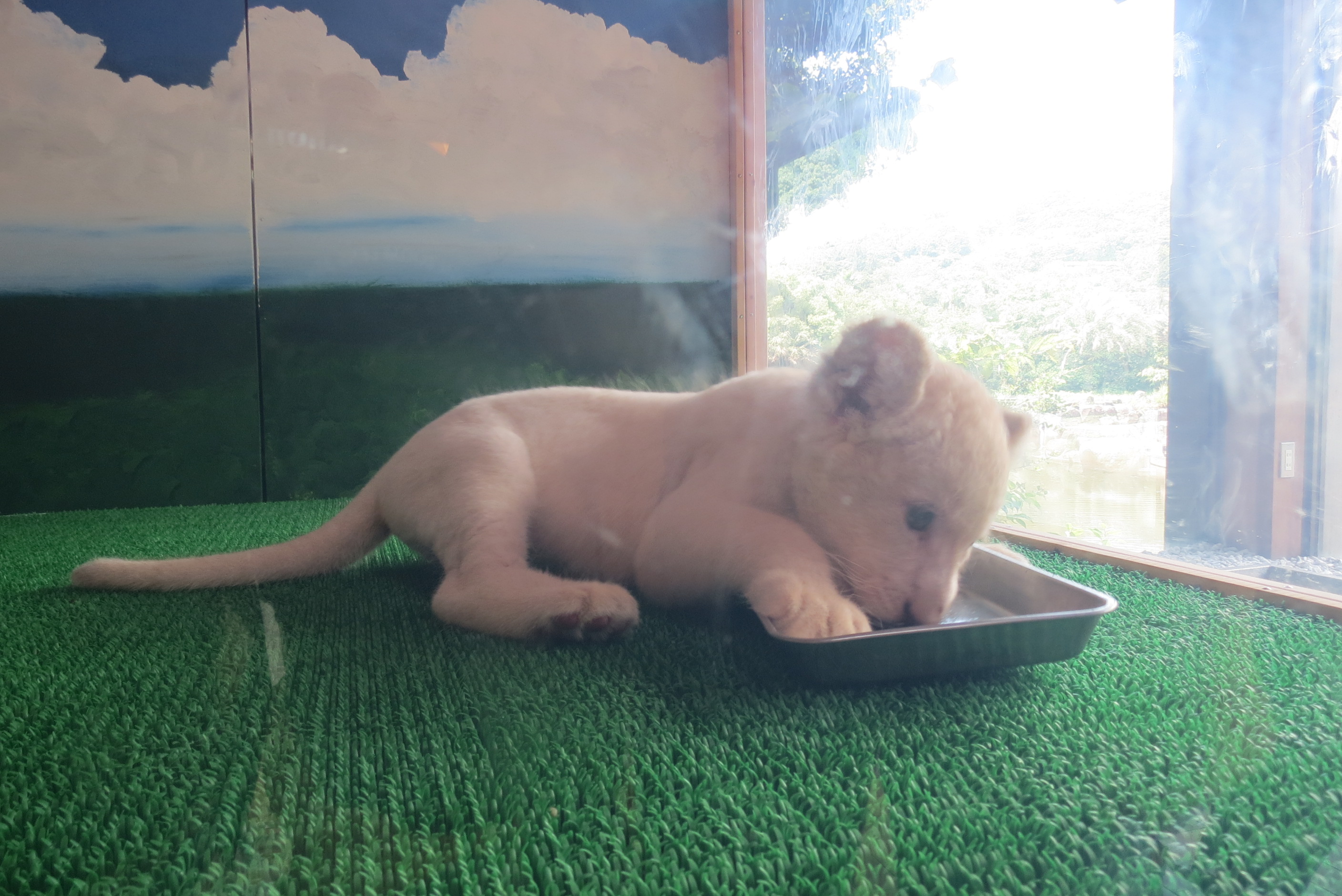 White Lion Baby, Izu animal kingdom, Higashiizu-town, Shizuoka-pref, Japan